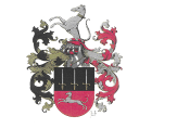 Family crest Van Rossum, Van Rossem